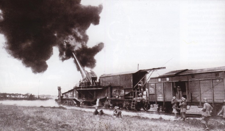 A 28 cm SK L/40 "Bruno" firing